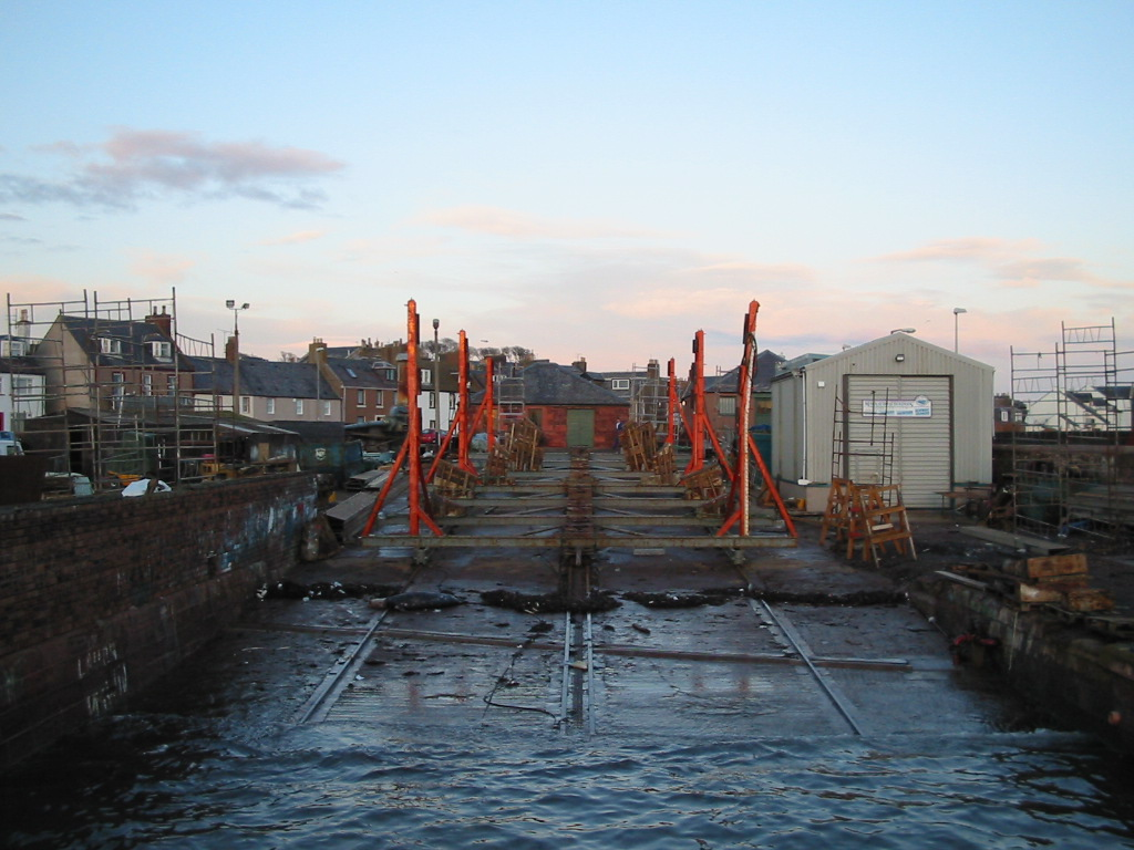 Angus Council Arbroath Harbour patent slipway